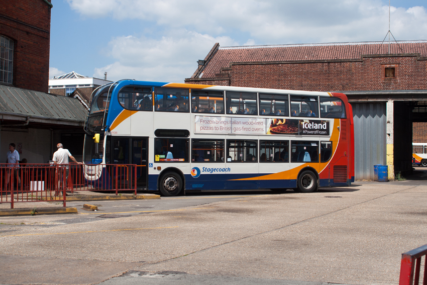 Winchester bus station with 19081 Stagecoach Alexander-Dennis Enviro400 (MX56 FTY)